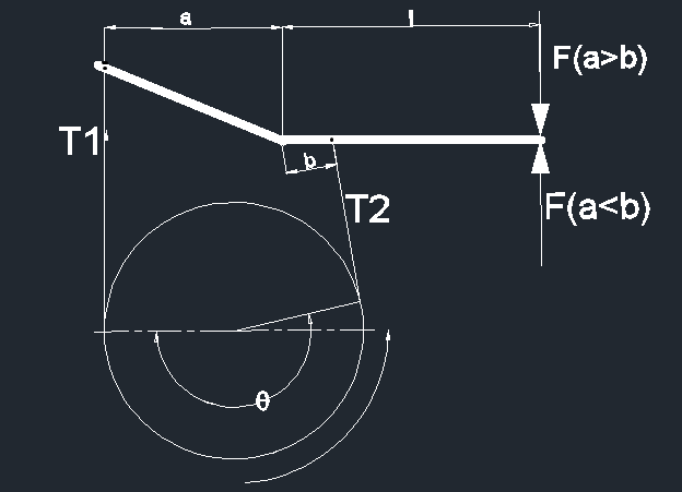 band brake